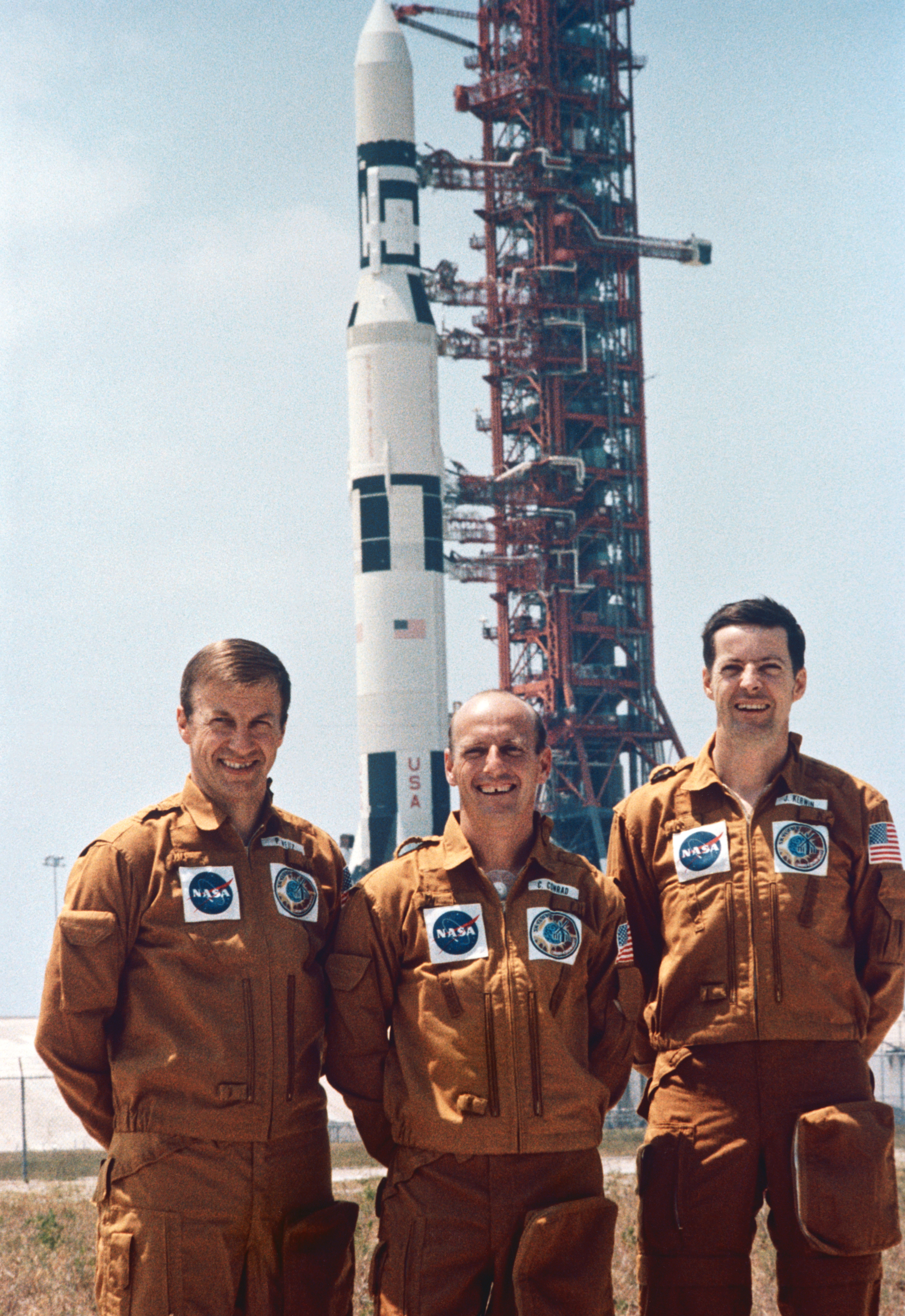 S73-25902 (4 May 1973) --- The three prime crew members of the first manned Skylab mission (Skylab 2) are photographed at Launch Complex 39, Kennedy Space Center, during preflight activity. They are, left to right, astronaut Paul J. Weitz, pilot; astronaut Charles Conrad Jr., commander; and scientist-astronaut Joseph P. Kerwin, science pilot. In the background is the Skylab 1/Saturn V space vehicle with its Skylab space station payload on Pad A.